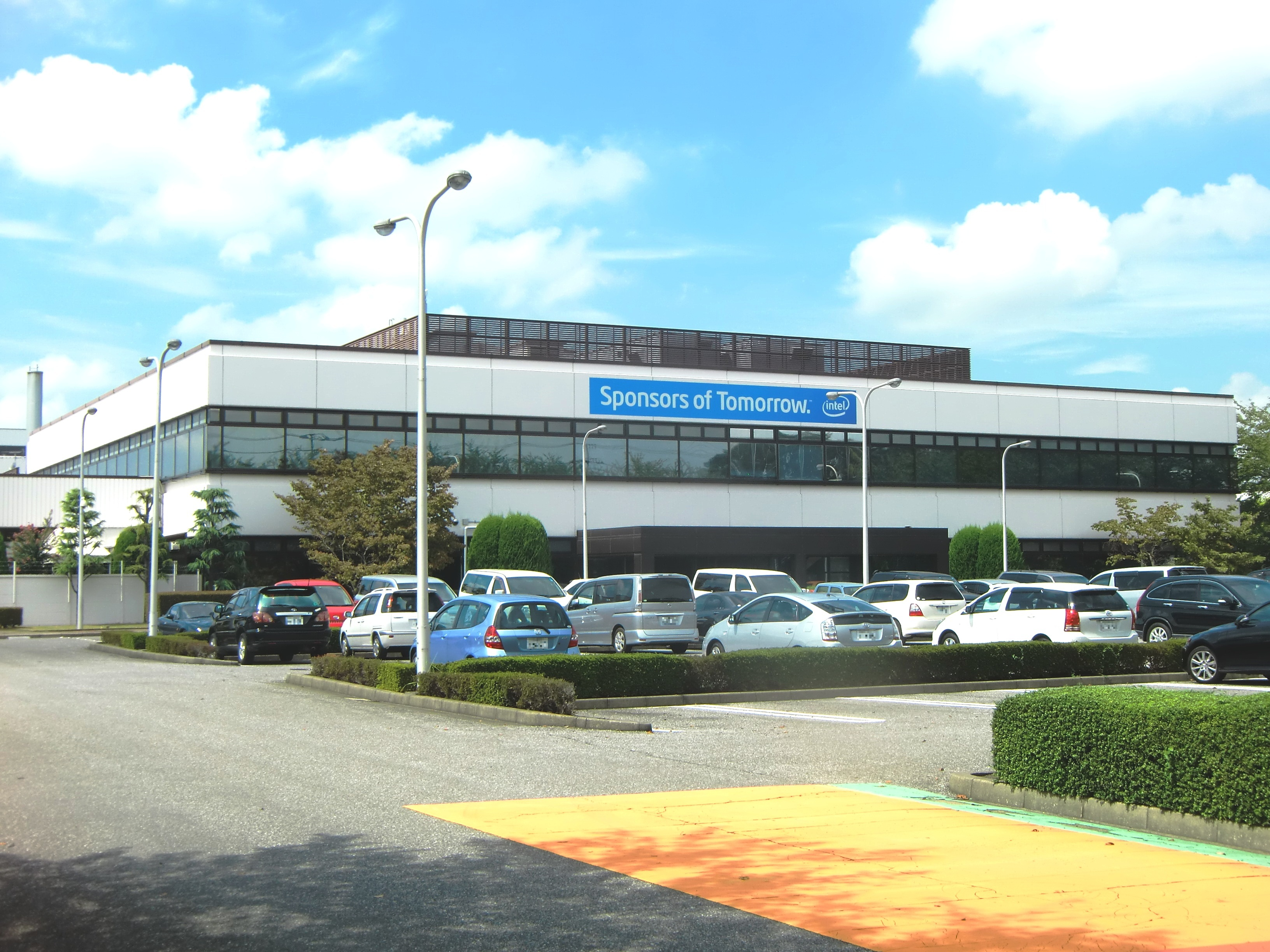 Intel corporation Japan Tsukuba Head Office, Tōkōdai 5-chōme, Tsukuba city, Ibaraki prefecture, Japan.